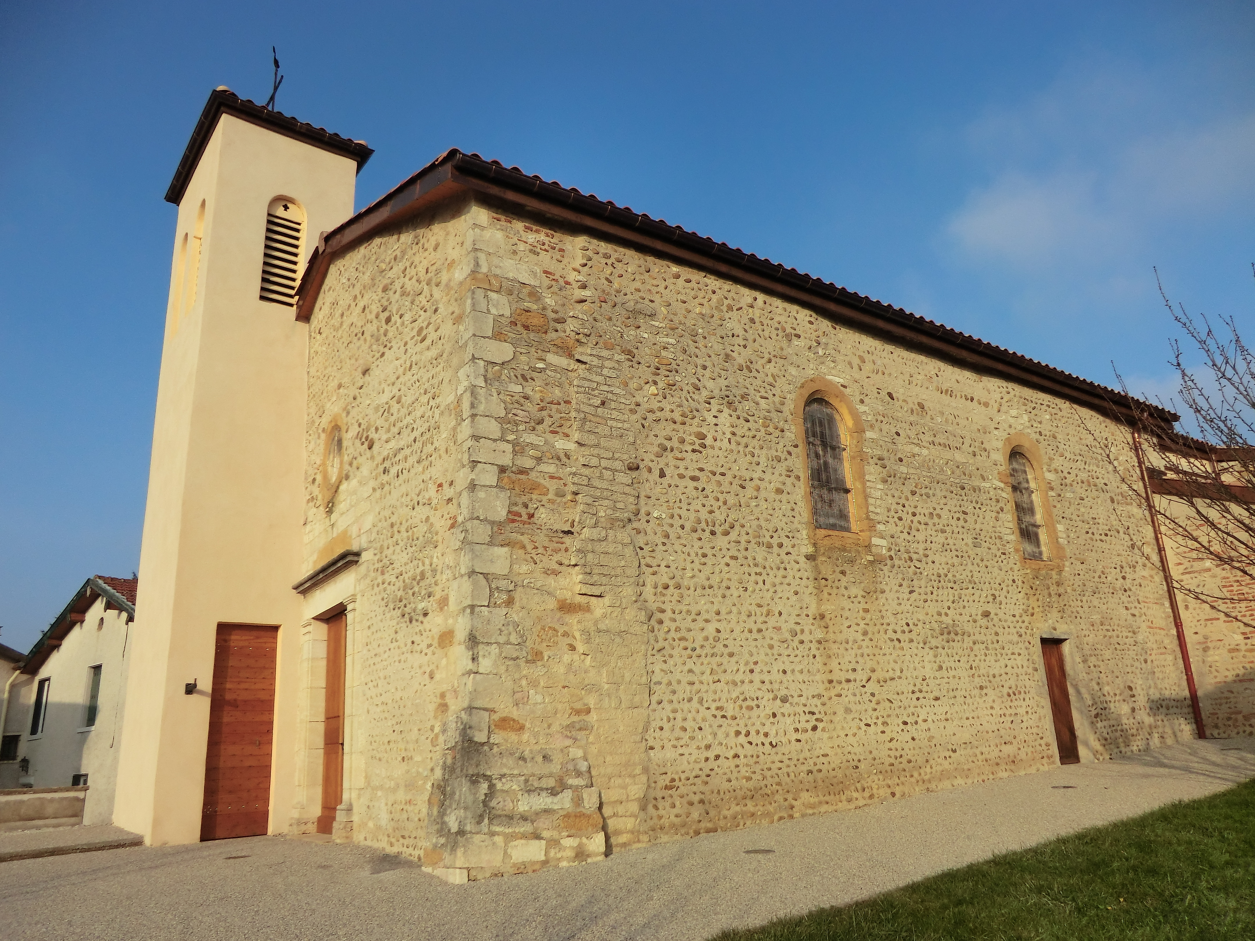 Church of Saint-Jean-de-Thurigneux.